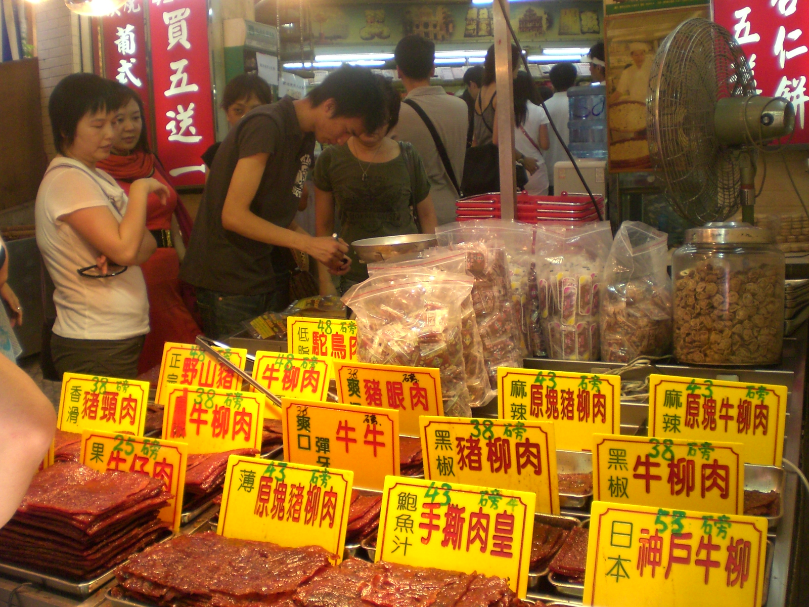 牛肉及豬肉產品 Author= Mo707